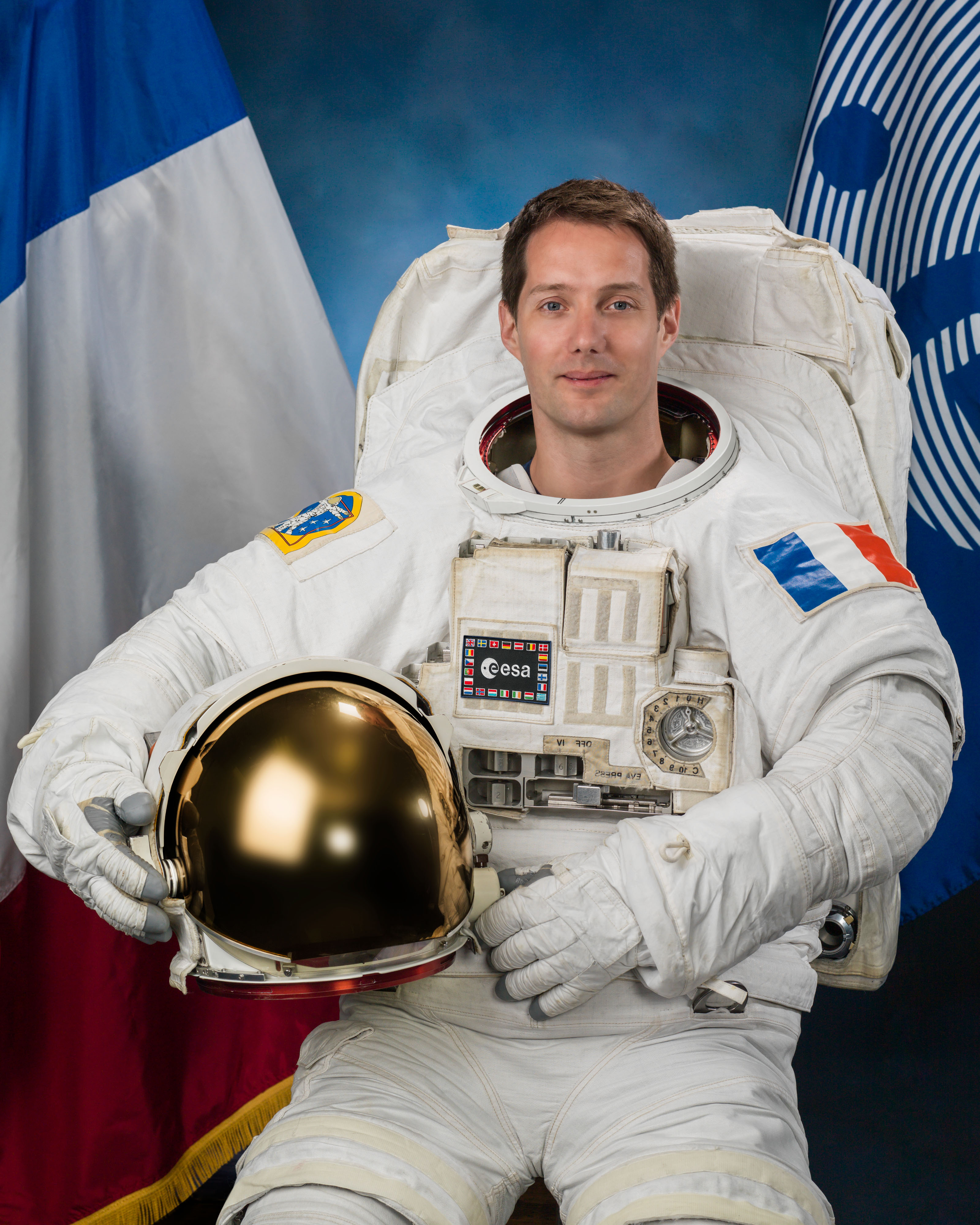 Official portrait of Expedition 50 ESA (European Space Agency) astronaut Thomas Pesquet in a spacesuit (EMU) suit.